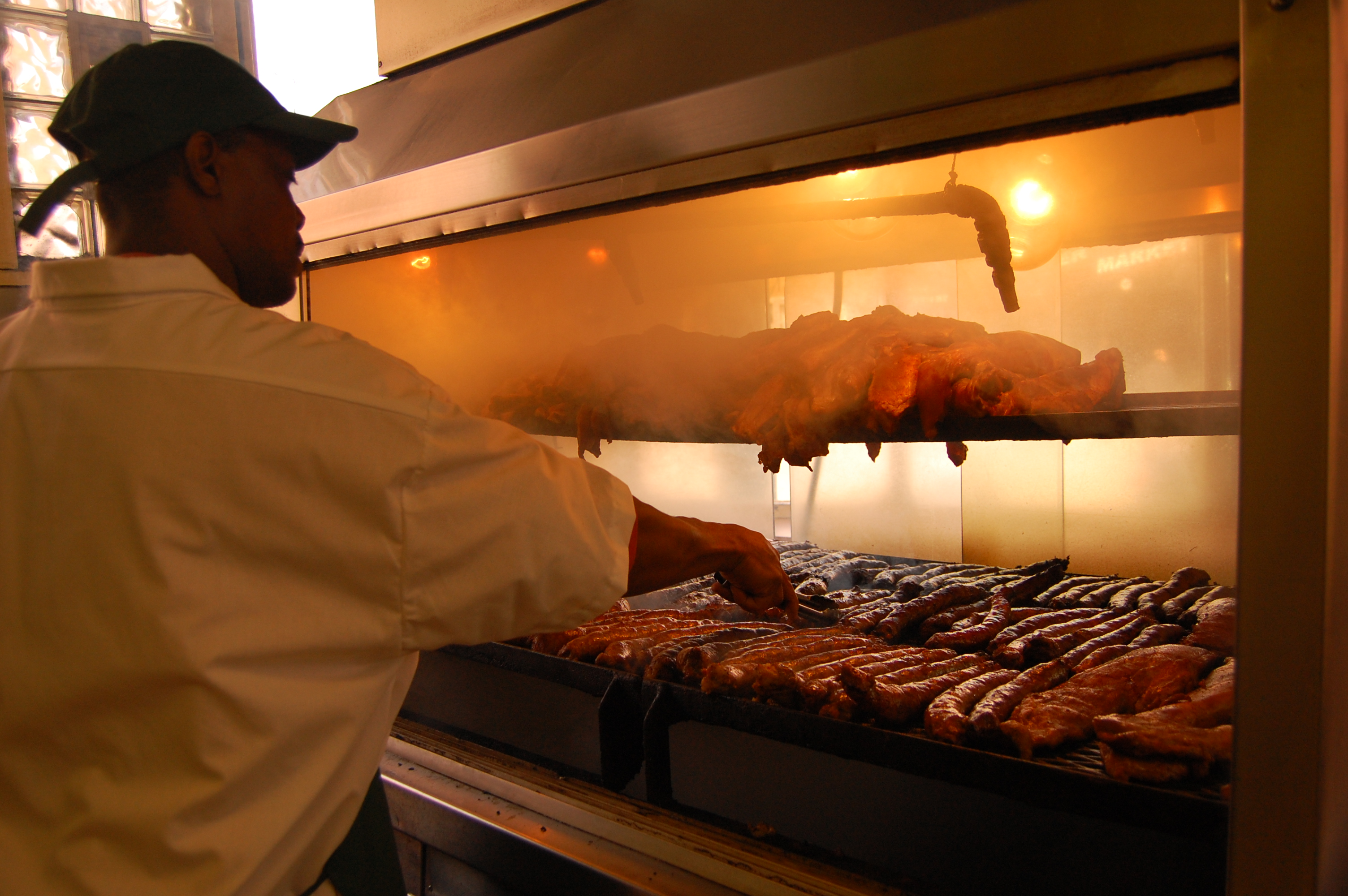 Lem's Bar-B-Q- Chicago, IL Photo by Amy C Evans, SFA oral historian March 2008